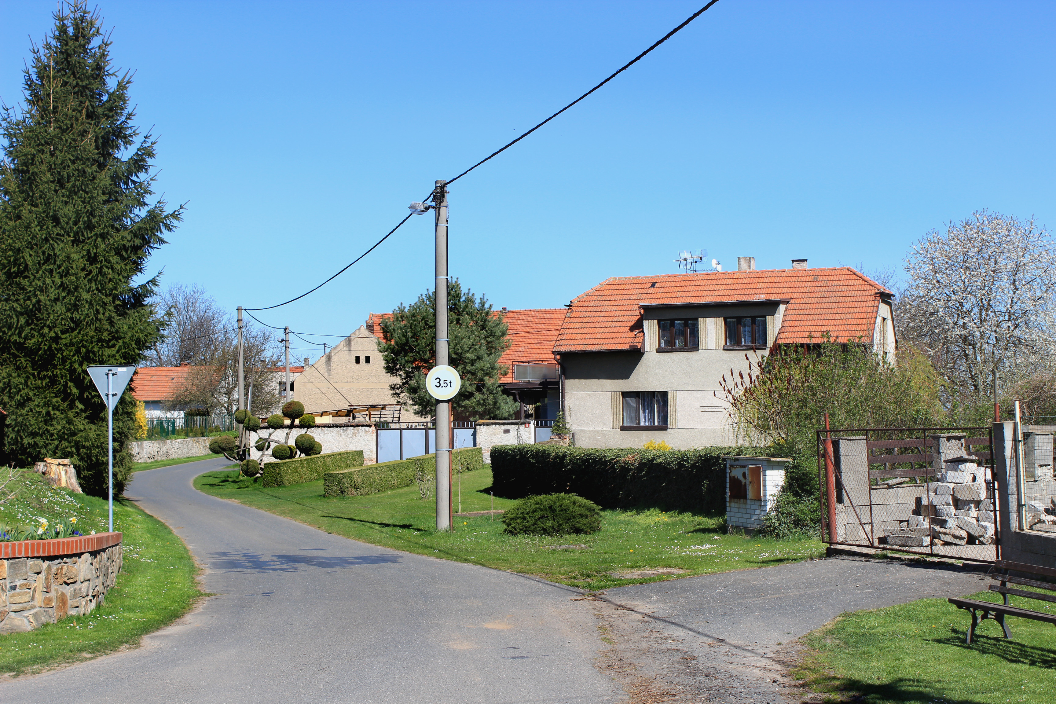 Road to Poboří in Krychnov village, Czech Republic.